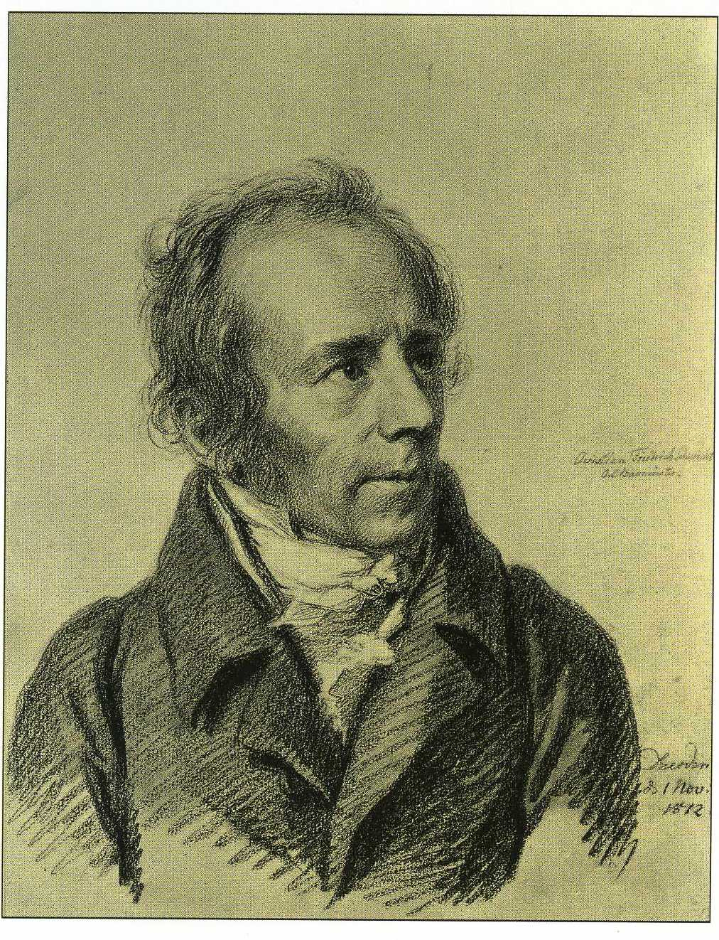 Christian Friedrich Schuricht (1752–1832)